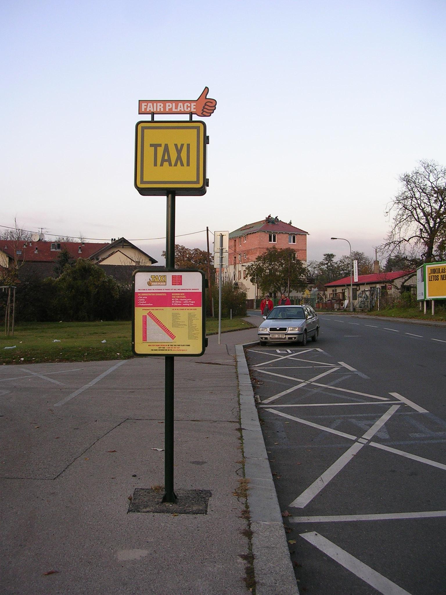 Braník, Prague. Taxicab stand near train station.